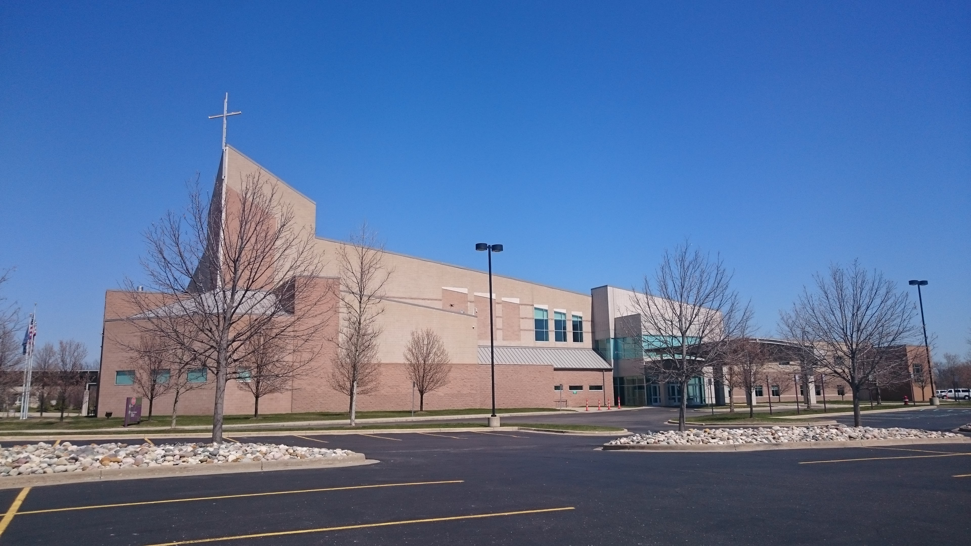 The main campus of Woodside Bible Church, located in Troy, Michigan.